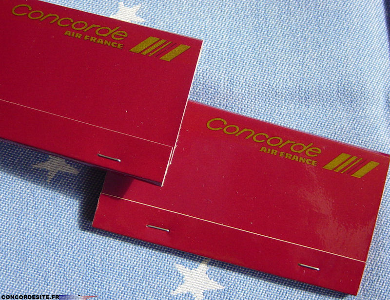 CONCORDE Matchbox year 1985-1986